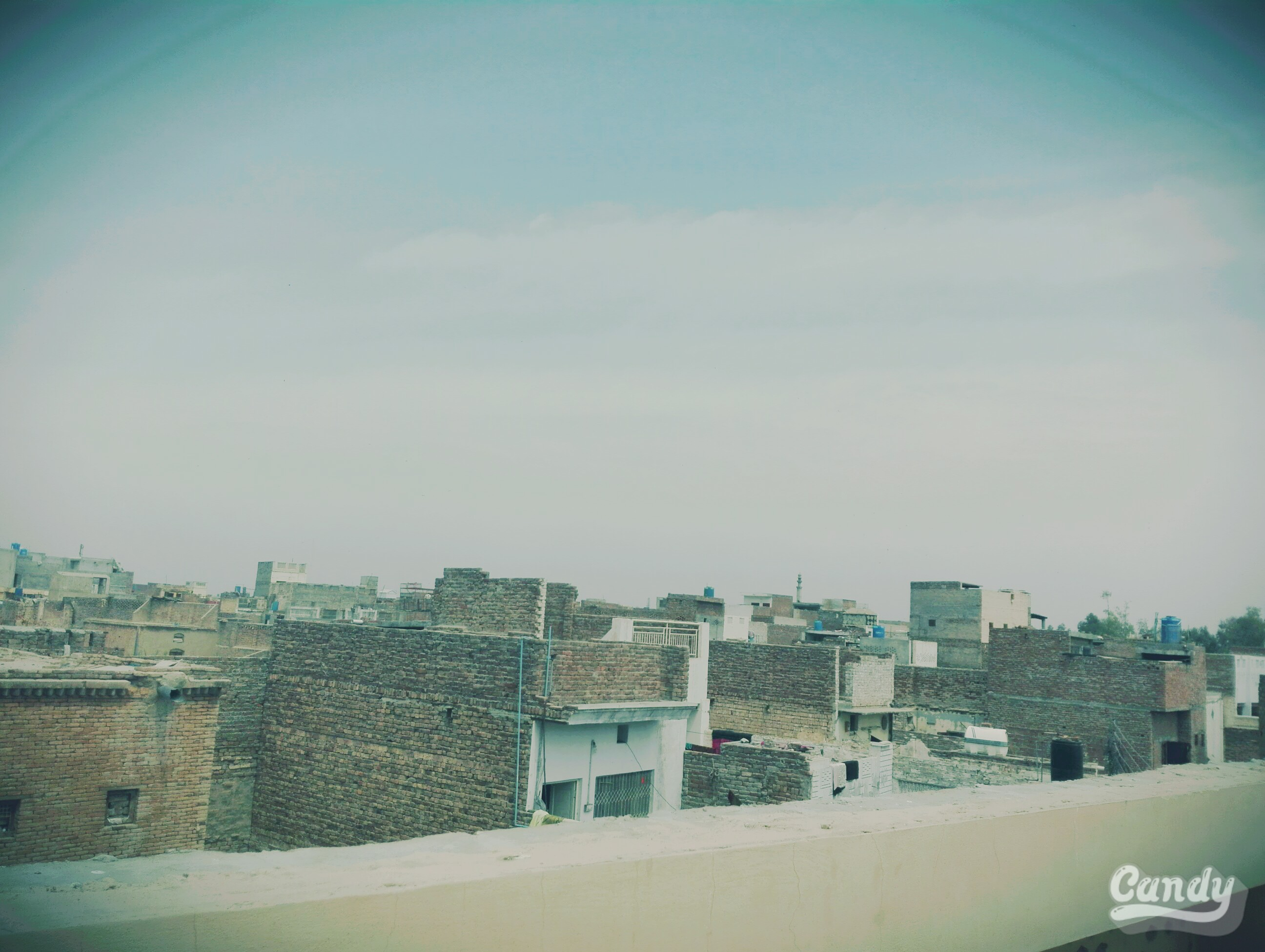 Bahawalpur